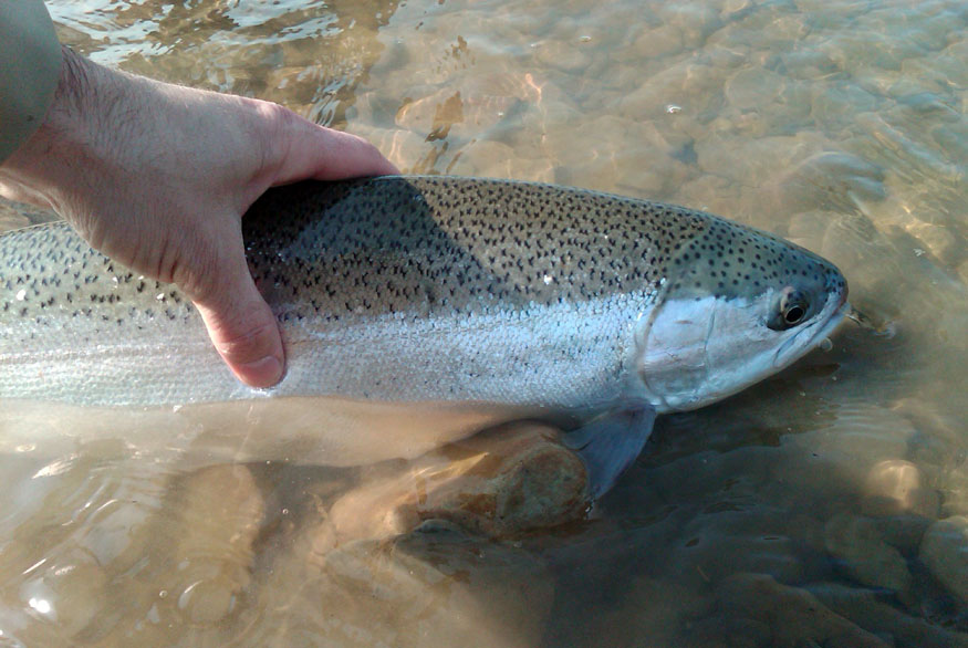 Lake Erie Steelhead (Oncorhynchus mykiss) in the Grand River in Ohio